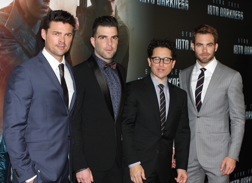 L to R: Karl Urban, Zachary Quinto, J. J. Abrams, and Chris Pine, at the Star Trek Into Darkness in Sydney, Australia movie premiere, in April 2013